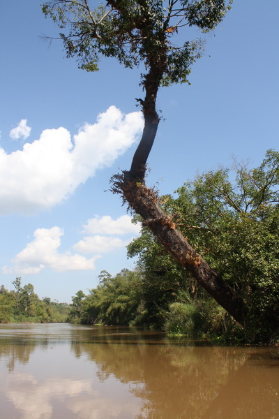 somthong